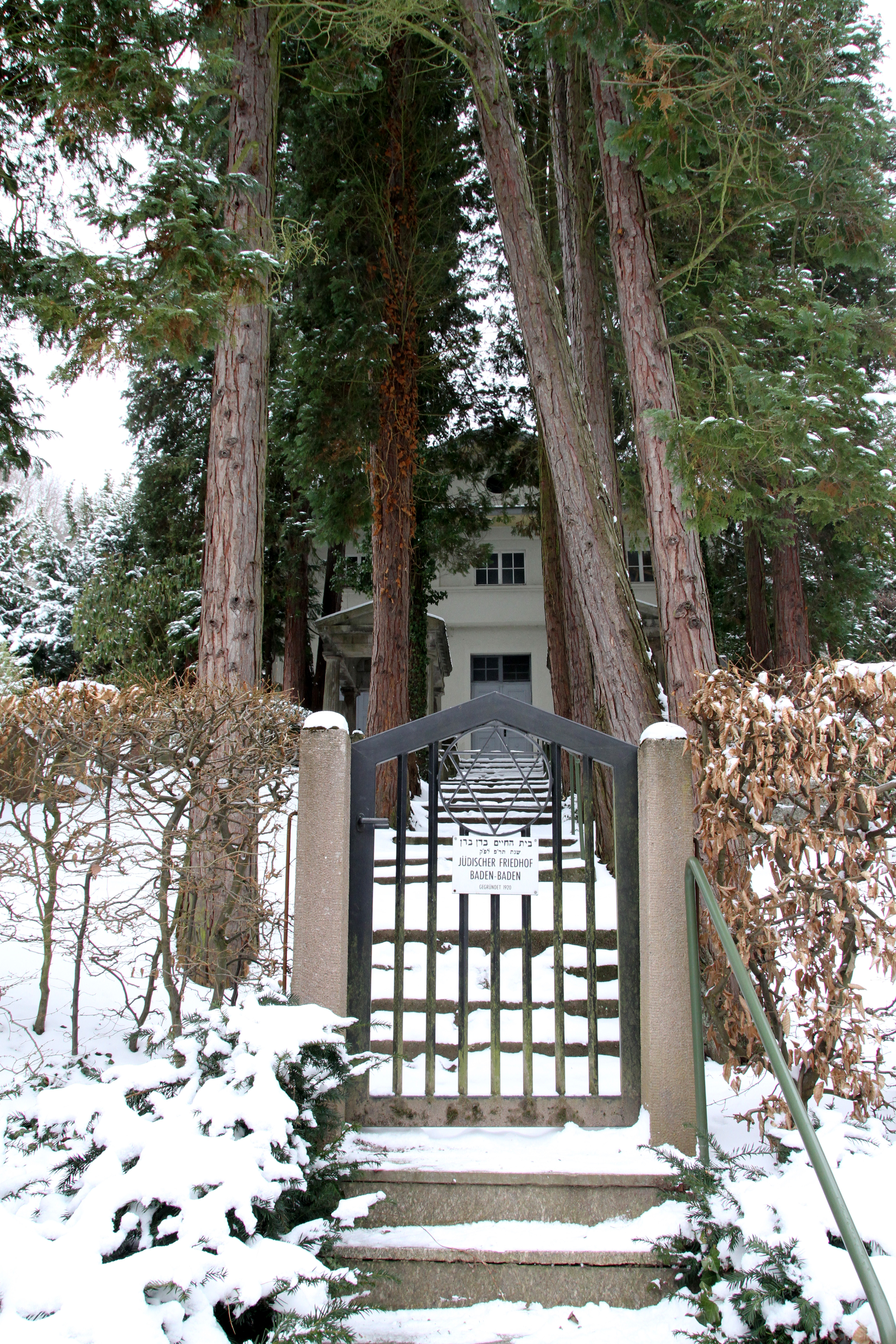 Jewish cemetery Baden-Baden-Lichtental, Germany.